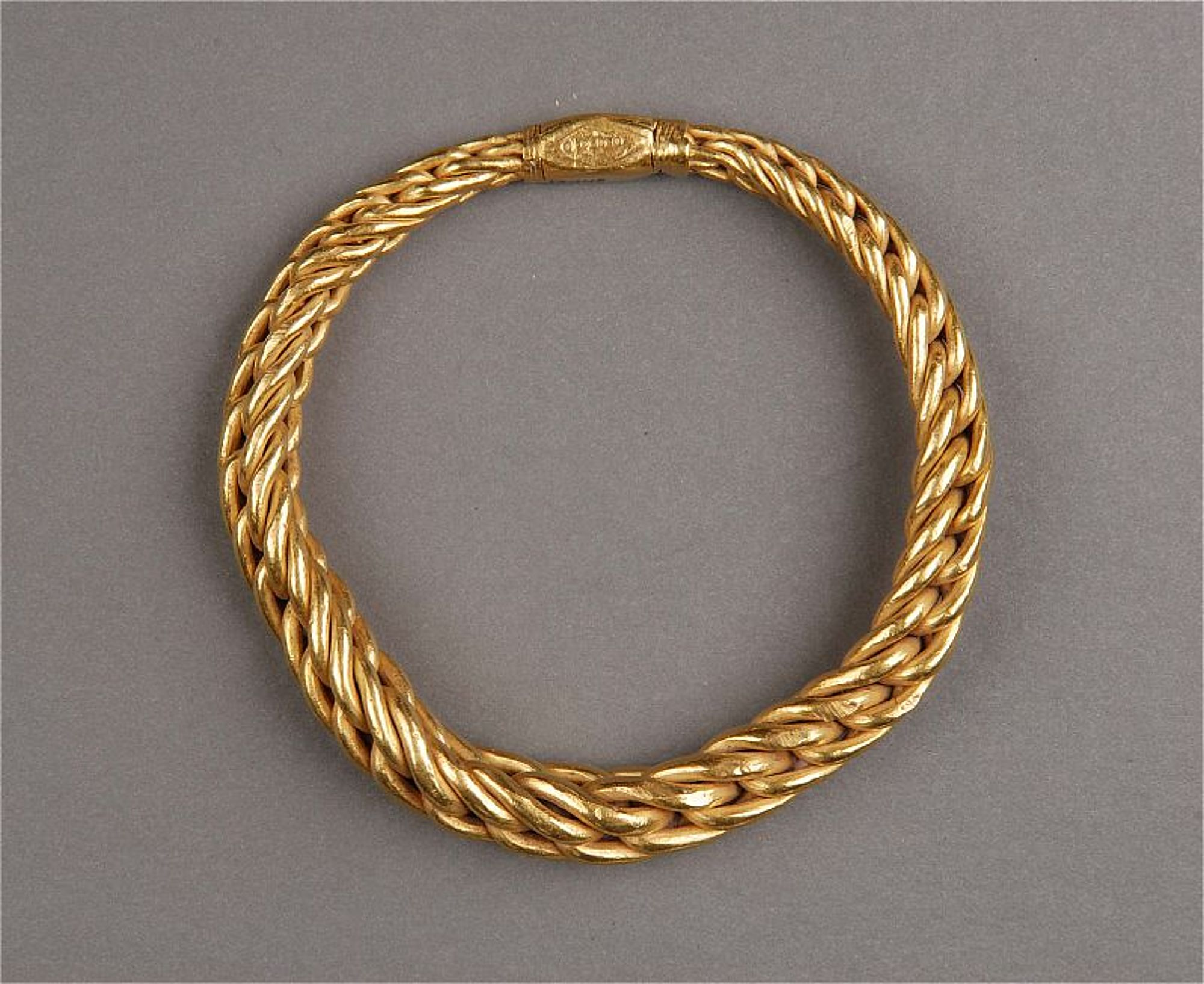 Viking age gold bracelet from Sillinge Sweden